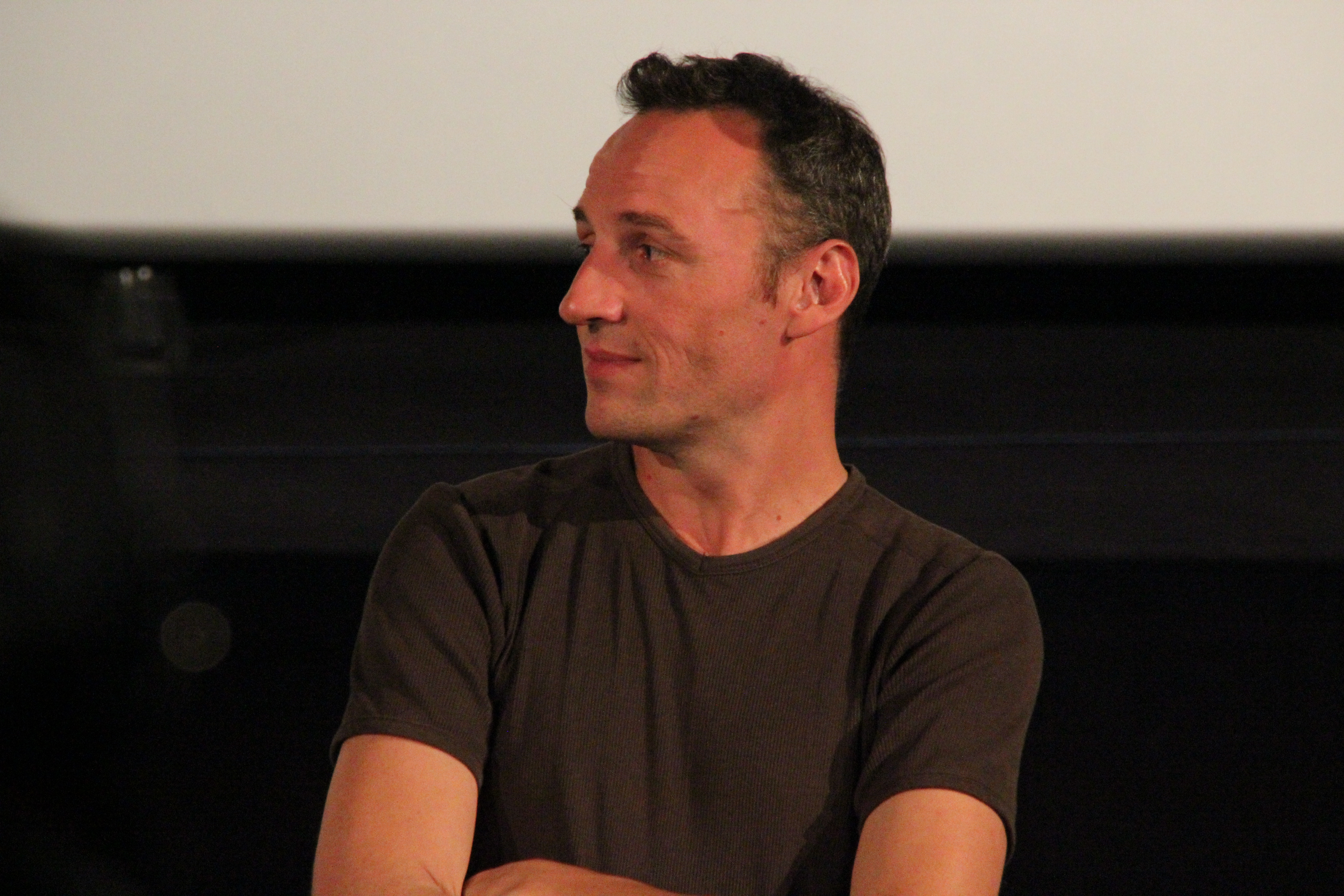 Master class with Michel Gondry in the Gaumont Parnasse movie theater in Paris.